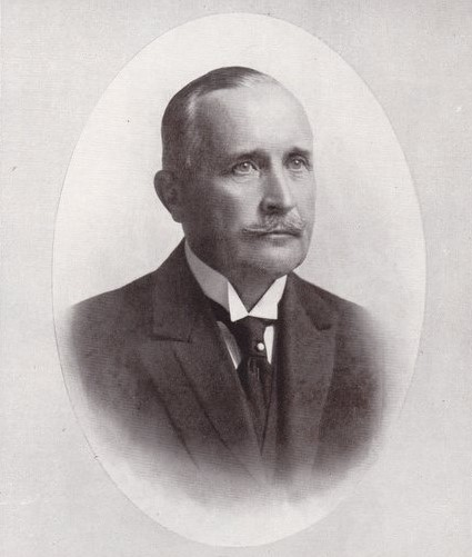 Swedish industrialist, army officer and member of the Riksdag Carl David Richard Hermelin (1862-1946)